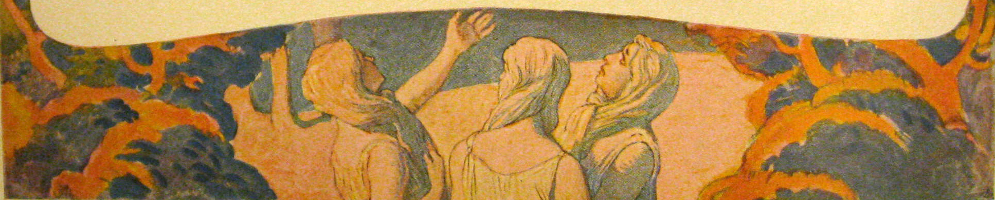 Women look up to Wodan and Frea with their long hair tied to appear as beards. Inspired by the account of Wodan and Frea naming the Langobards from Origo Gentis Langobardorum. Further up on the page Wodan stands with Frea as he looks downward at the women.